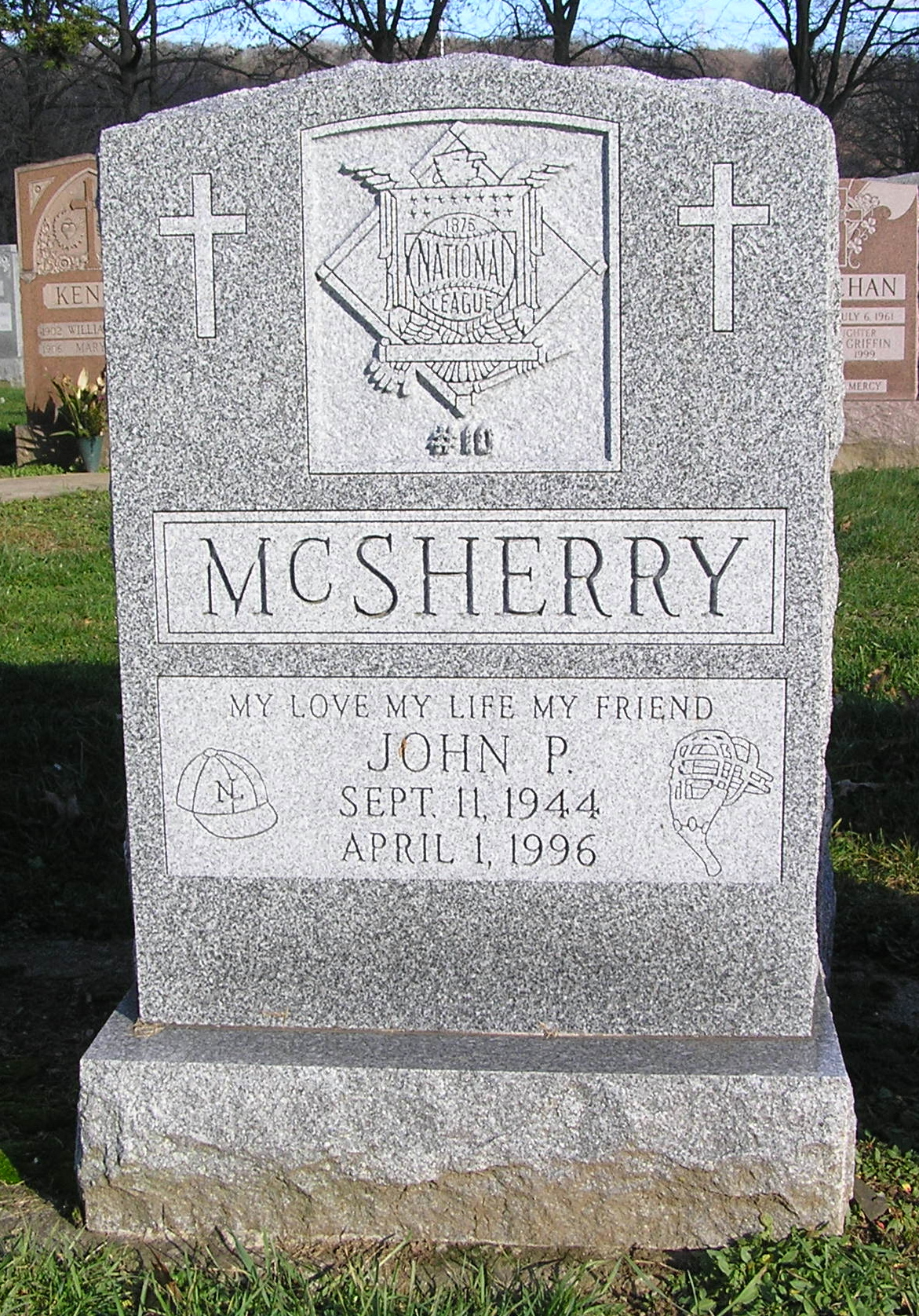 the grave of John McSherry in Gate of Heaven Cemetery.